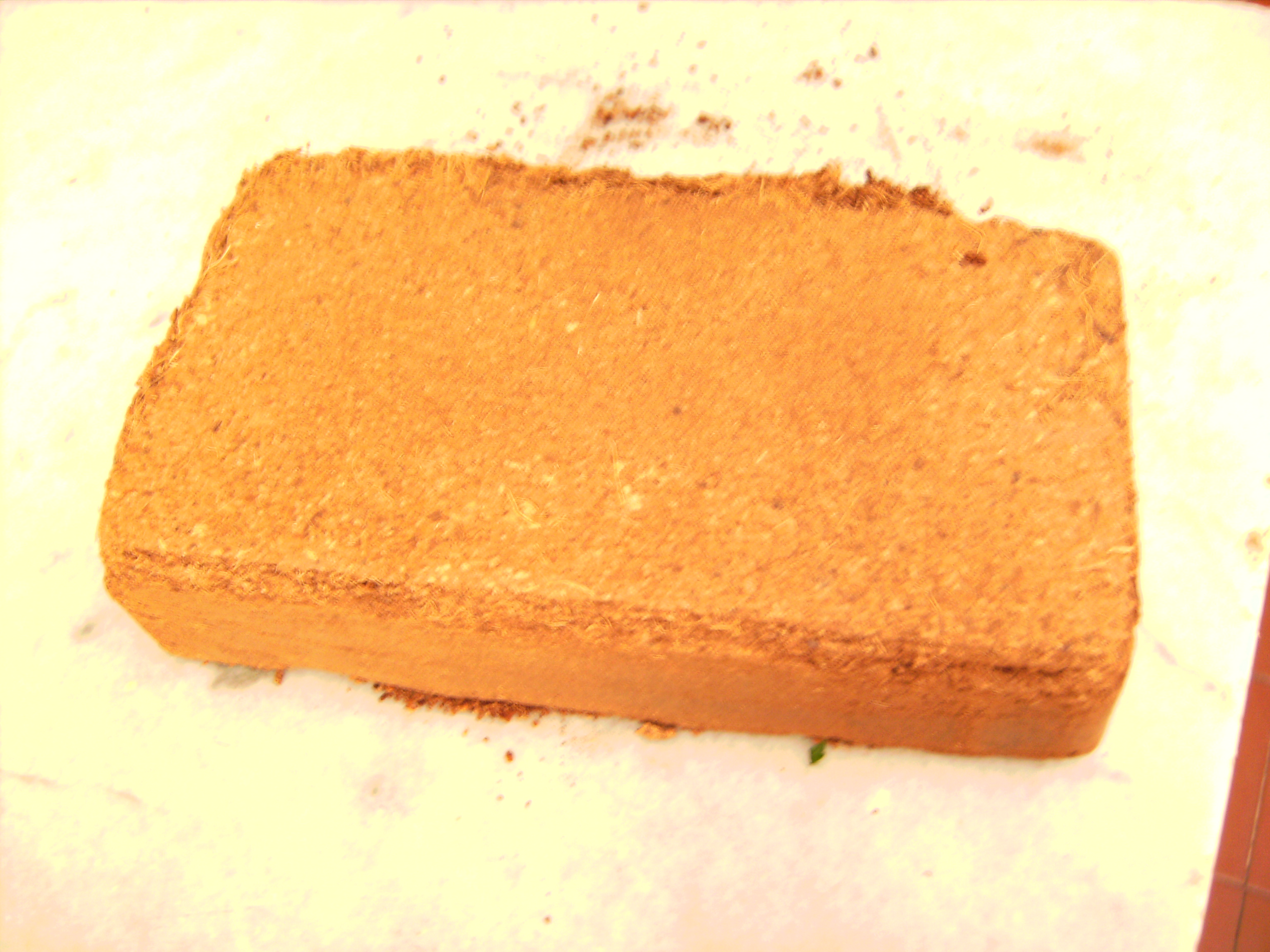 Coir brick: Coconut fiber for horticulture